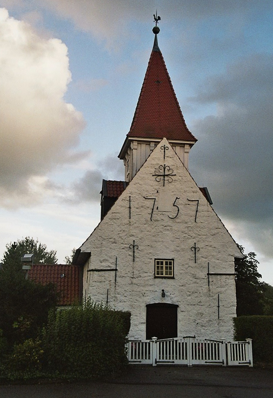 Source: made by WikiTour 2005 Description: (de:) Nikolai-Kirche in Treia (1757)